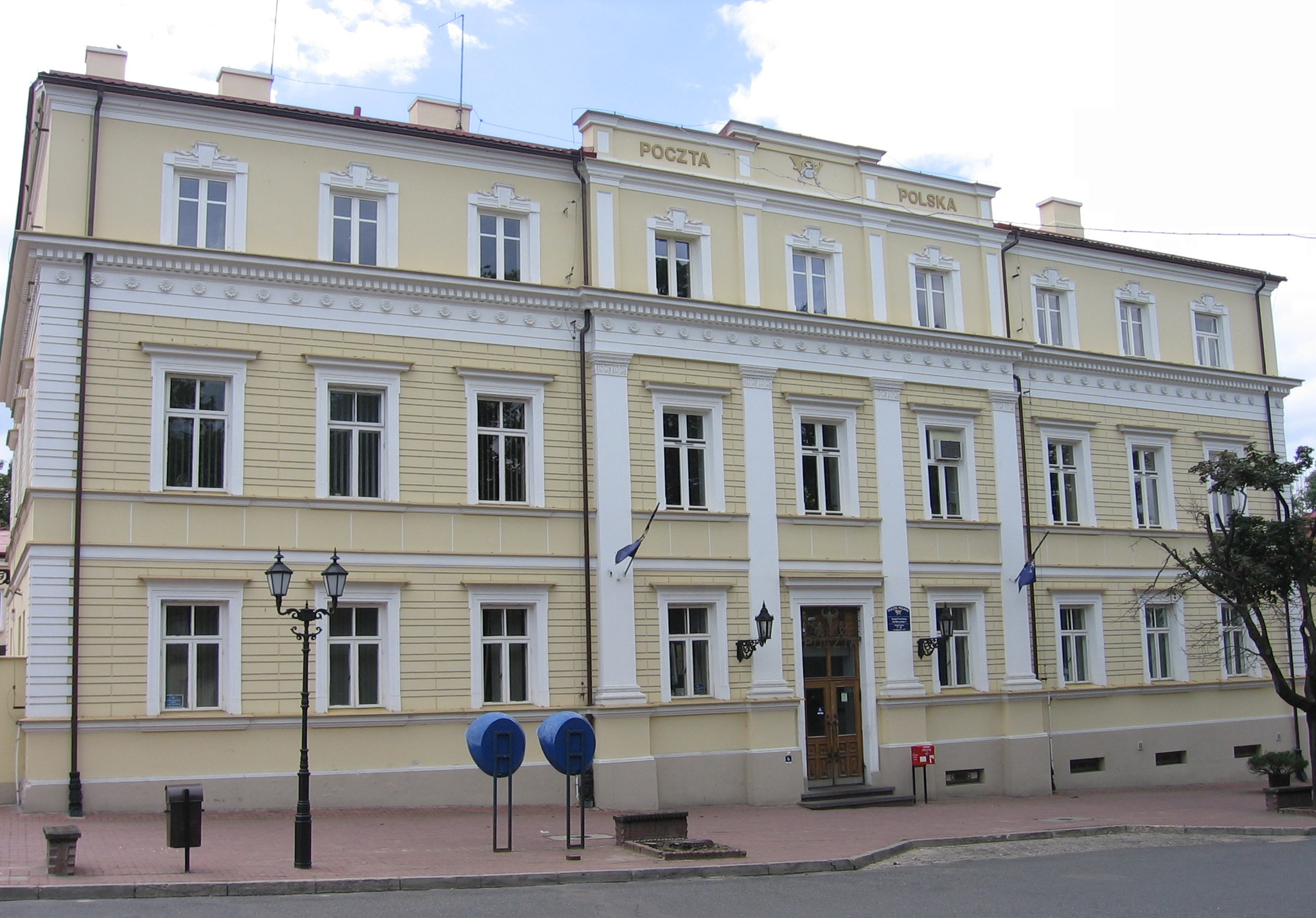 Building of the first Post Office in Łomża